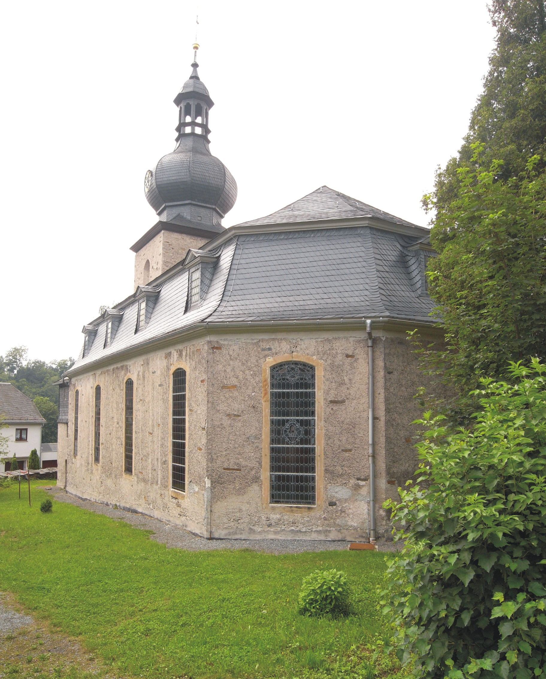 Church of Saint Lawrence in Probstzella (Thuringia, Germany)